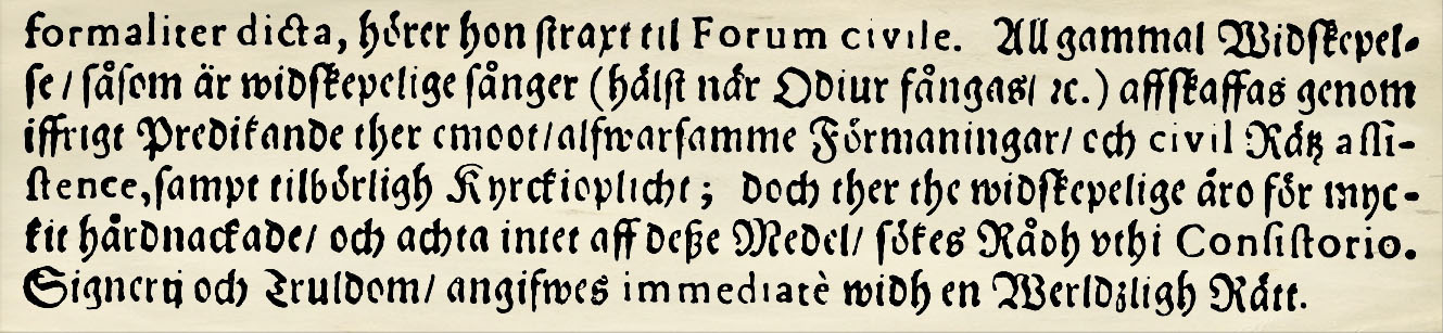 Church's edict to destroy Finnish spells